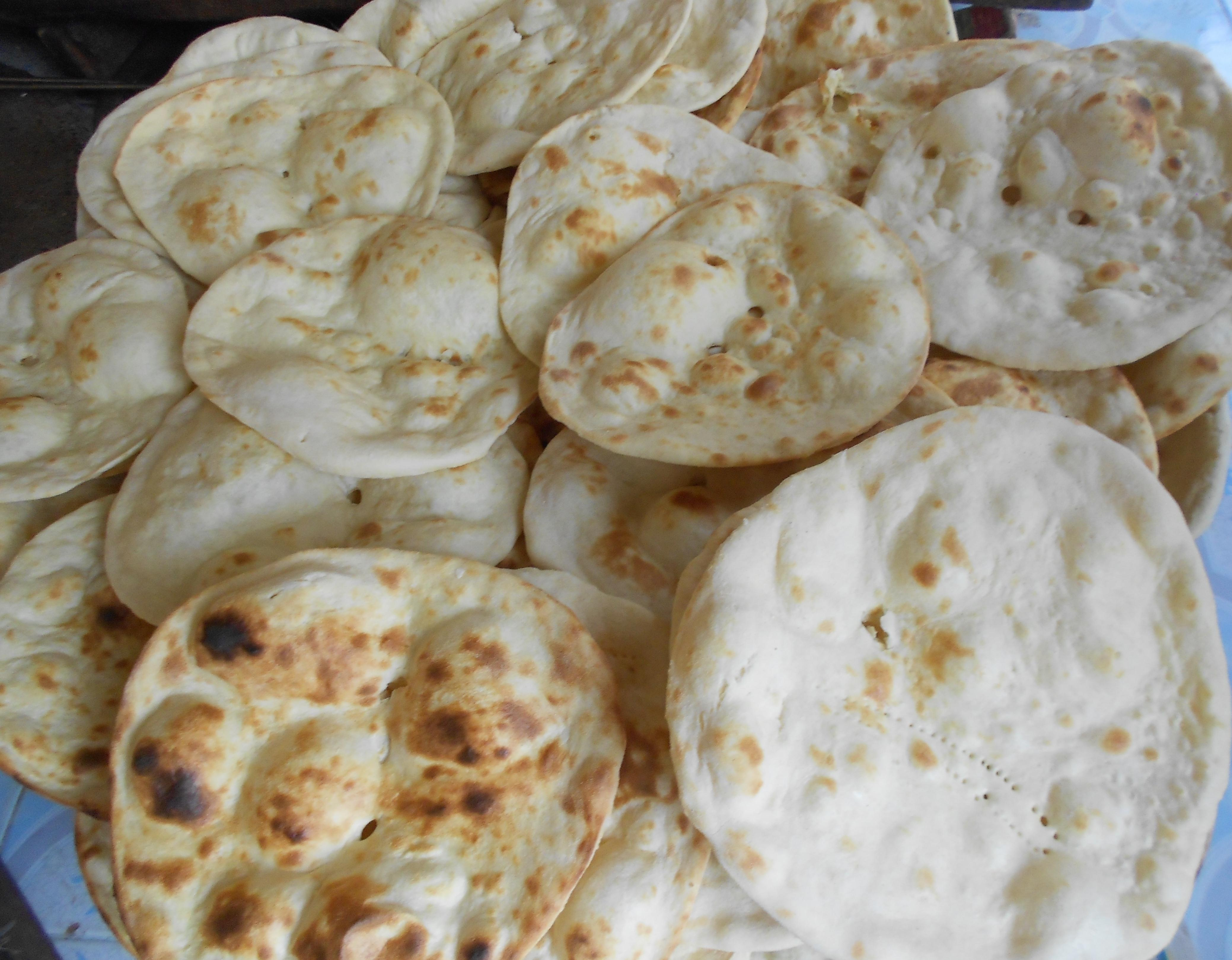 Roti is an Indian Subcontinent flat bread